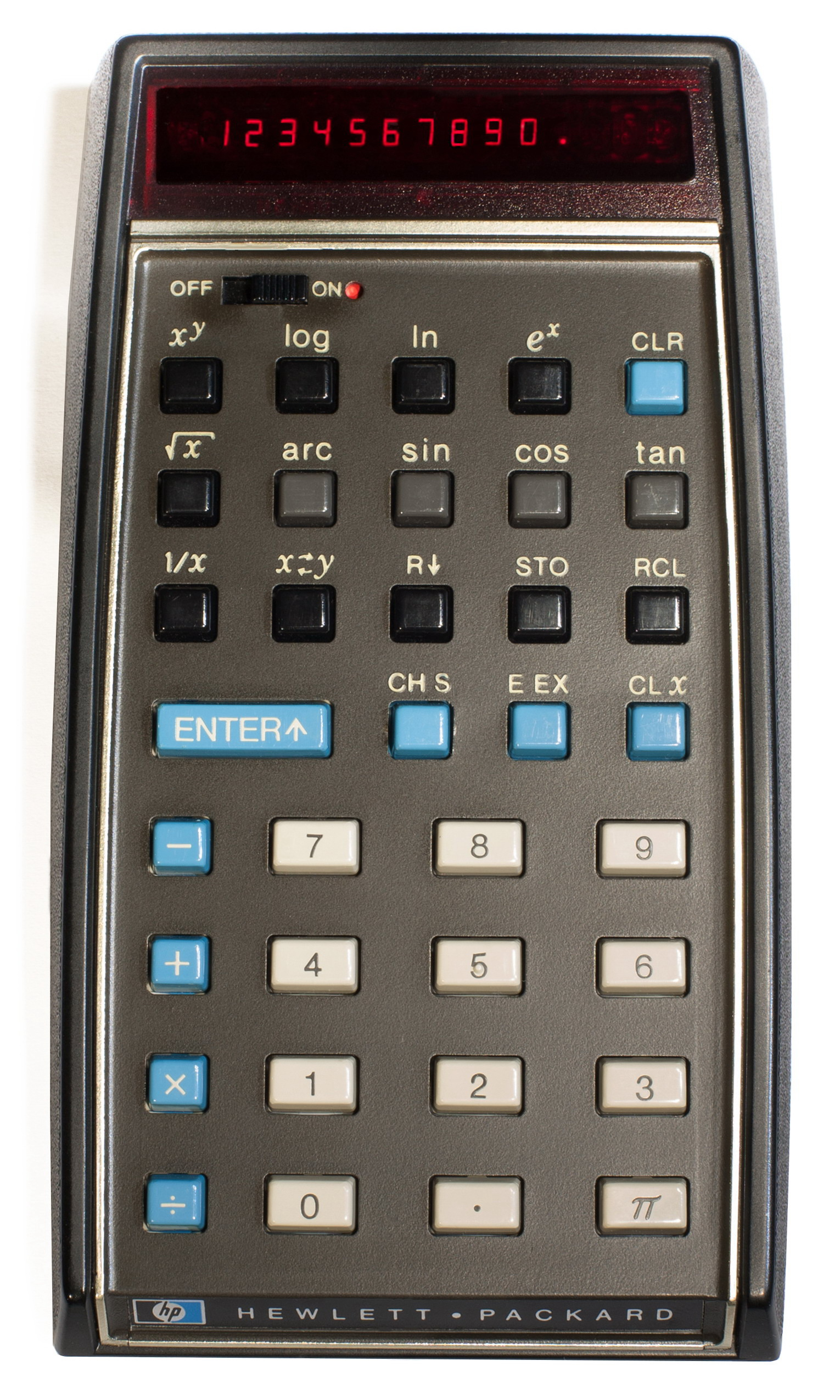 This HP 35 was the first scientific pocket calculator and was introduced in 1972. The first production run had a small red dot to the right of the on/off switch that would show when the calculator was turned on and did not have the "35" designation on the label.